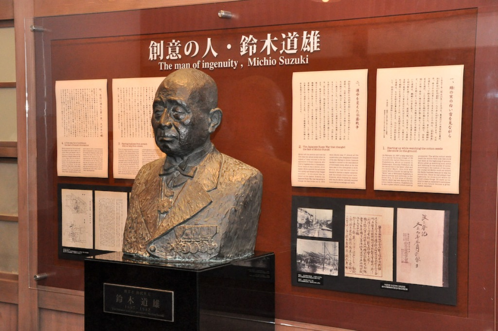 The bronze statue of Michio Suzuki, founder of Suzuki Motor, photoed in Suzuki History Museum (Hamamatsu City, Japan)